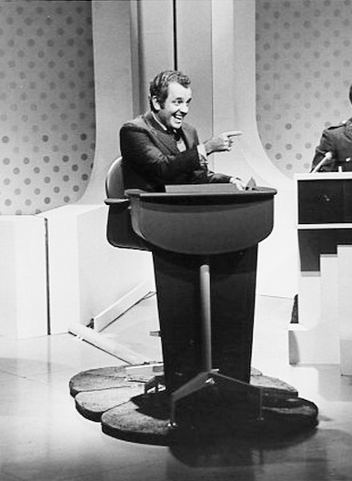 Photo of television personality Lloyd Thaxton from the short-lived game show Funny You Should Ask. Thaxton was best known for his work on an American Bandstand type pop music show for teens-The Lloyd Thaxton Show, which, like "Bandstand", was also seen nationally.